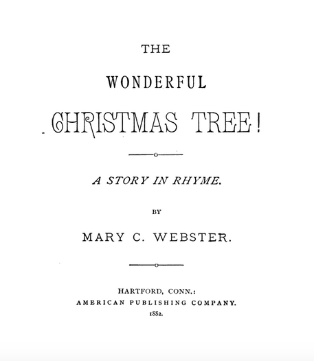 The Wonderful Christmas Tree!: A Story in RhymeBy Mary C. Webster